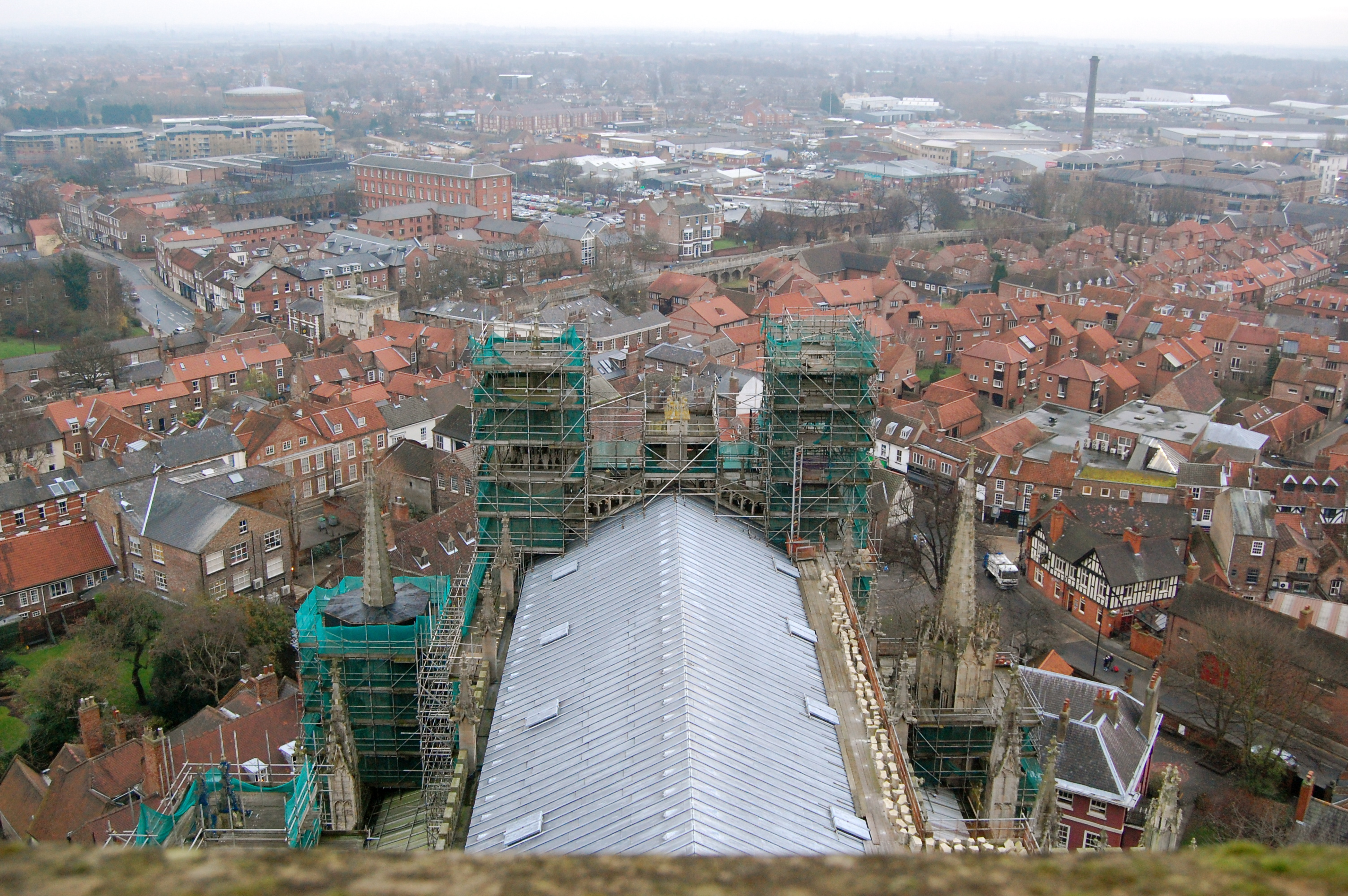 Conservation work taking place at York Minster, York, UK. December 2008.